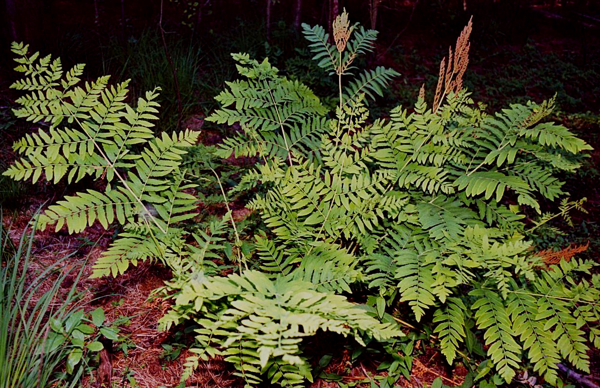 Habitus of "flowering" Royal Fern (Osmunda regalis); natural occurence in a forest.